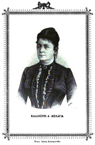 Poikilē stoa: ethnikē eikonographēnenē epetēris ... Etos 1-16, 1881-1914 (1894) Author: Ioannes A. Arsenēs , Michael A . Raphaelobits Volume: 10 Publisher: Estia Year: 1894 Possible copyright status: NOT_IN_COPYRIGHT Language: Greek Digitizing sponsor: Google Book from the collections of: Harvard University Collection: americana